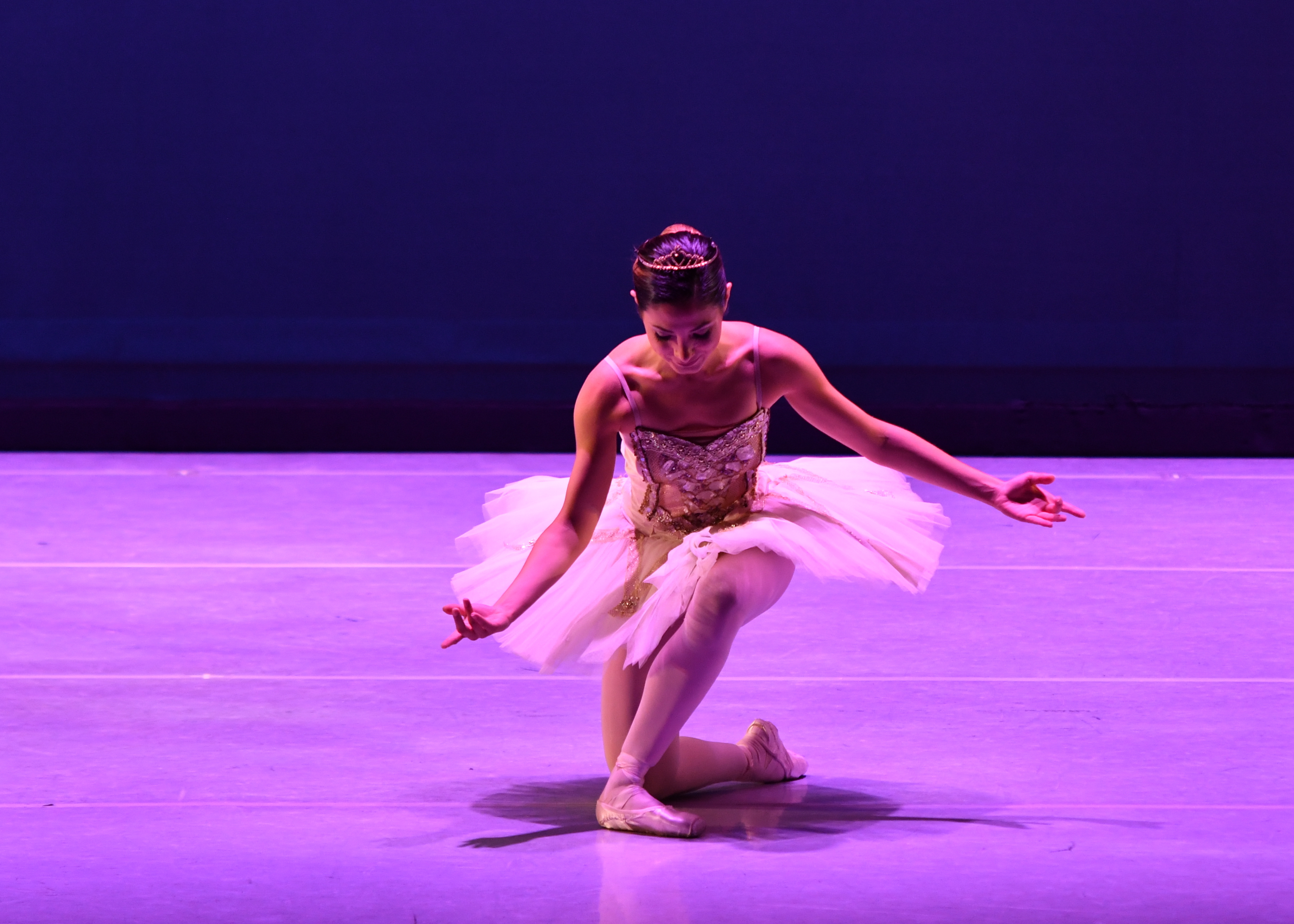 This photo was taking at Continental Ballet Company's Benefit Gala on September 8, 2018